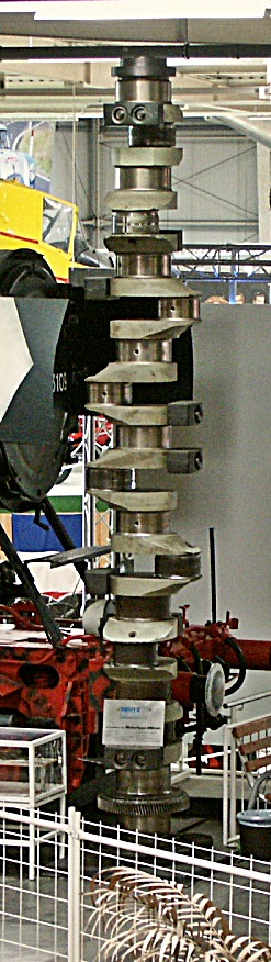 MAN built crankshaft for marine diesel engines. Note locomotive on the left as size reference.